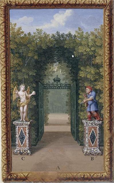 from Jacques Bailly's Le Labyrinthe de Versailles, illustrating the entrance to the Labyrinth of Versailles and the statues of Aesop and of Love